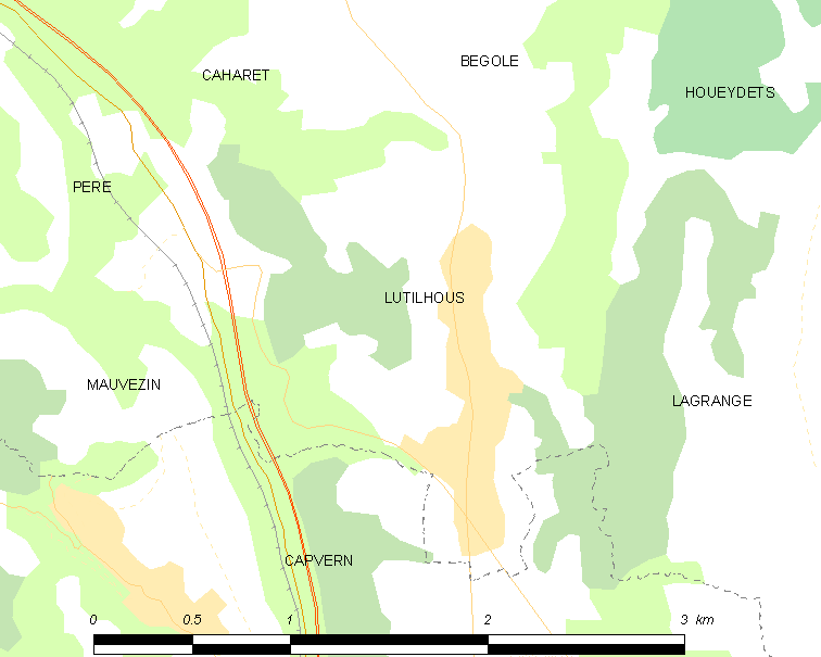 Map of French municipality